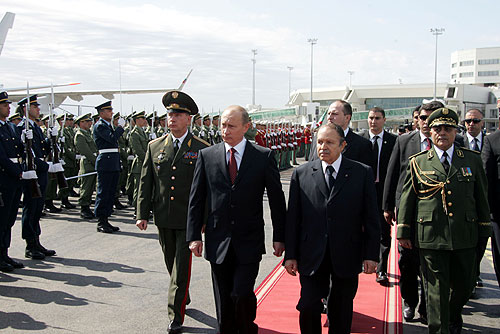 HOUARI BOUMEDIENE INTERNATIONAL AIRPORT, ALGIERS. Official welcome ceremony. On the right, the President of Algeria, Abdelaziz Bouteflika.